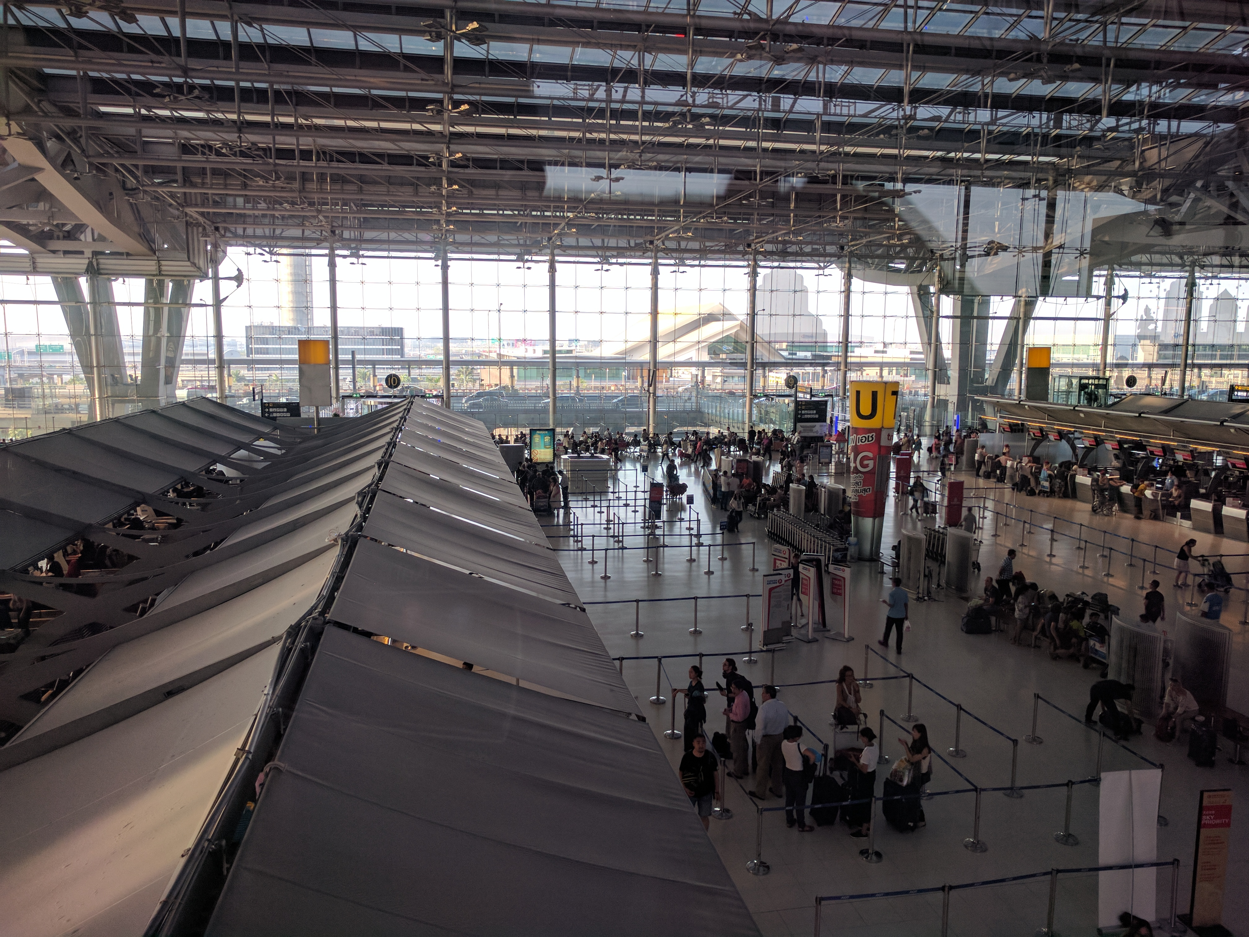 International check-in area in Suvarnabhumi Airport in Bangkok, seen from the upper level.